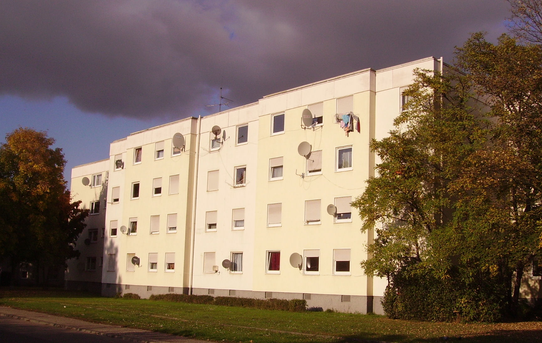 at the public library of Ludwigshafen, Germany